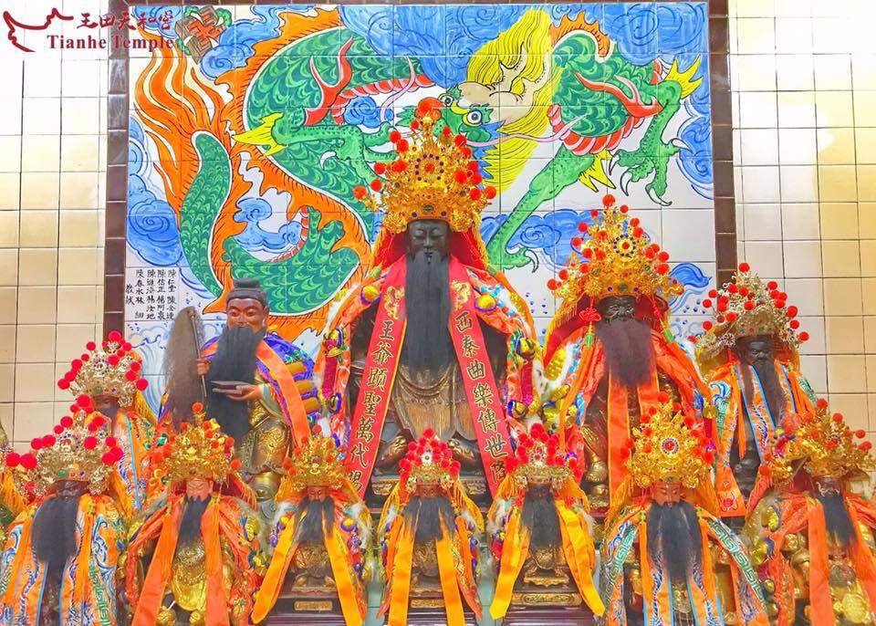 王田天和宮西秦王爺與眾神